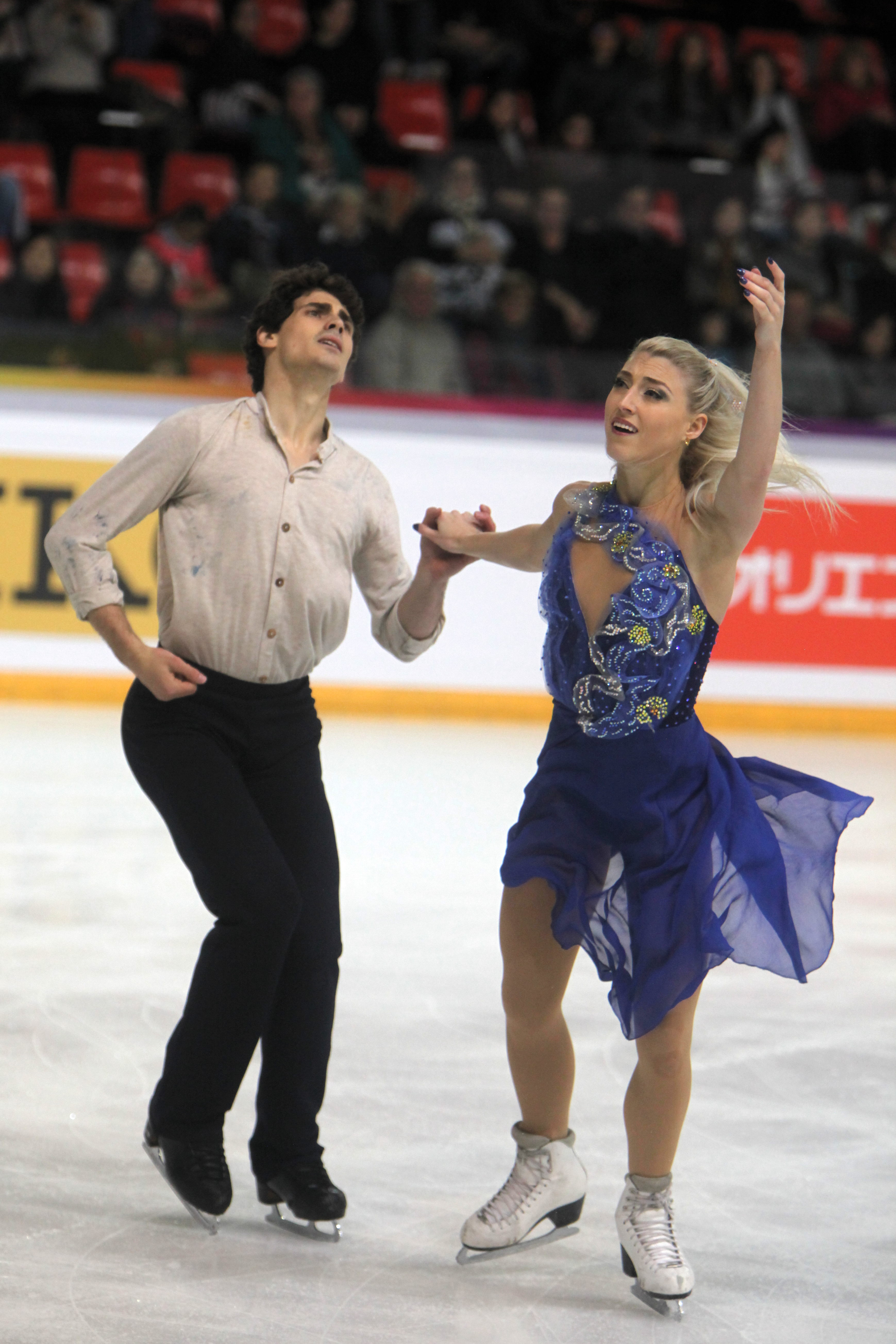 Piper Gilles and Paul Poirier during the Free Dance at the Internationaux de France de Patinage 2018.